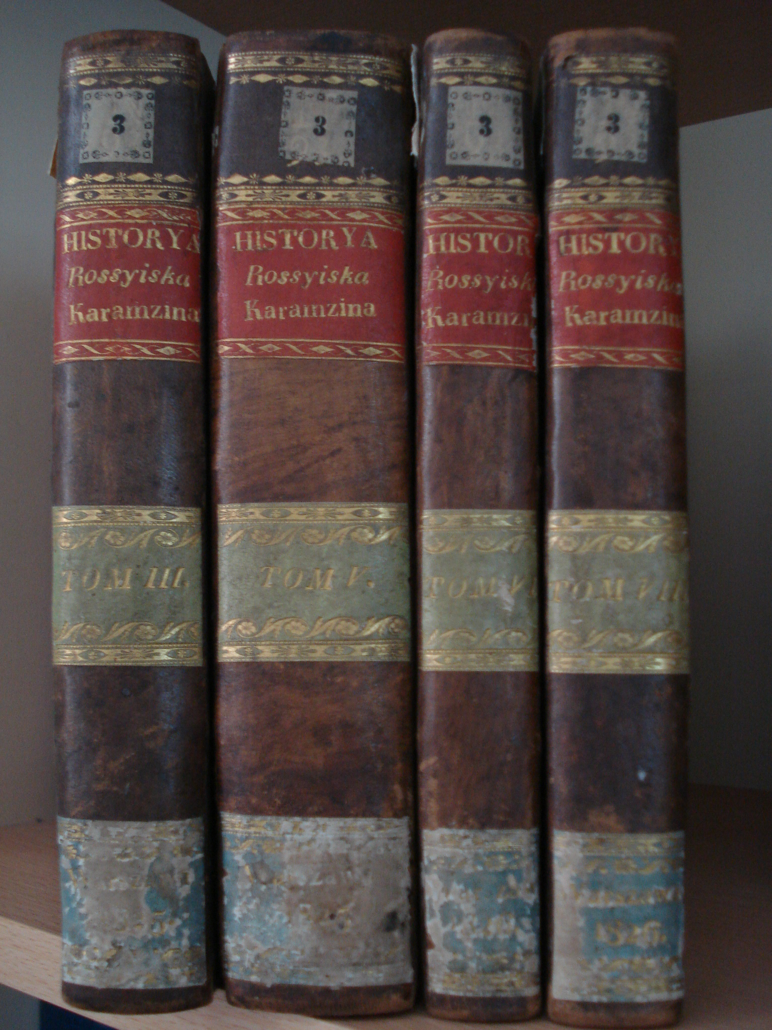 First Polish edition of the History of the Russian State by Nikolay Karamzin (vol. 3, 5, 7, 8; Warsaw, 1825)